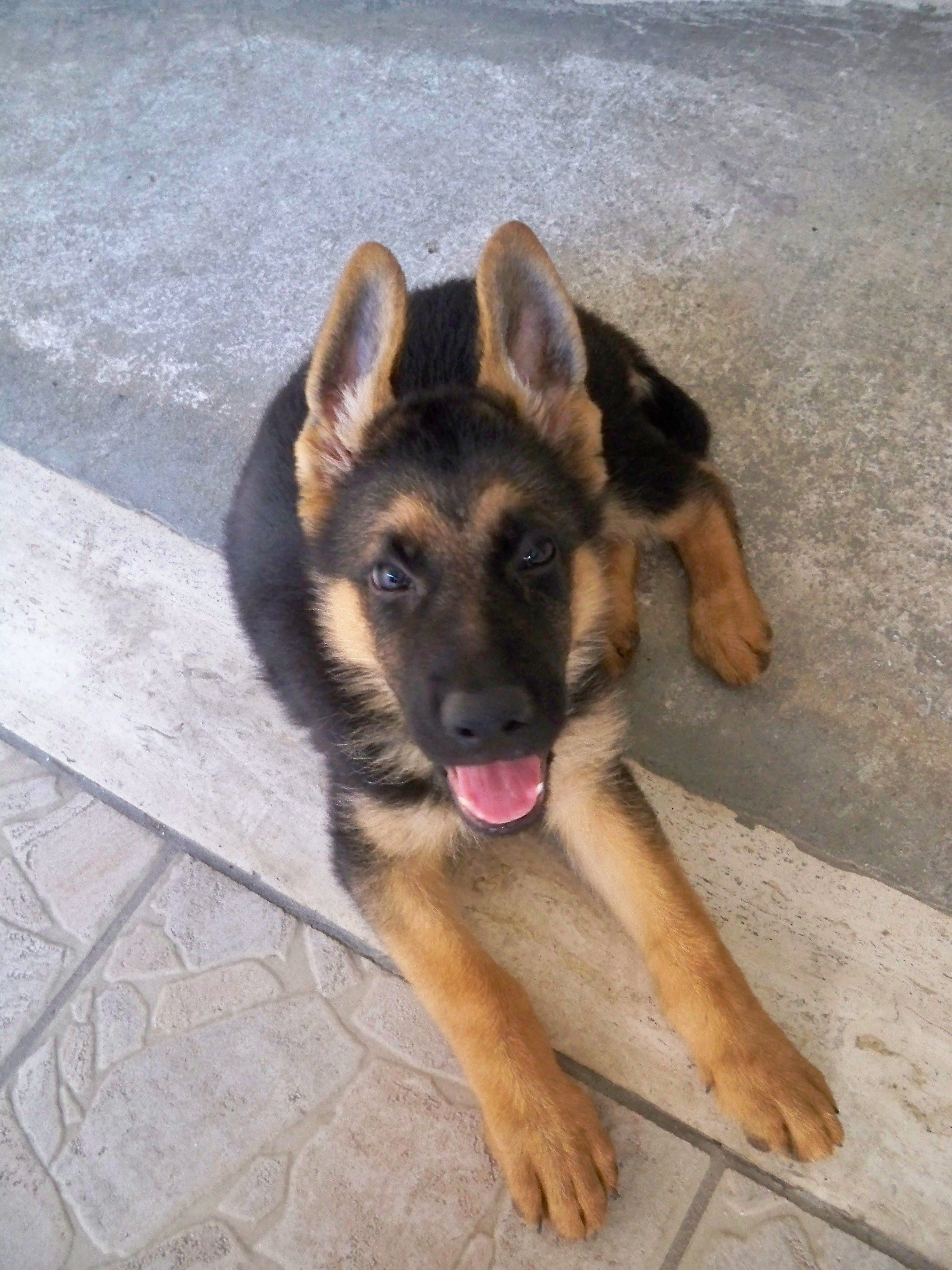 German shepherd puppy